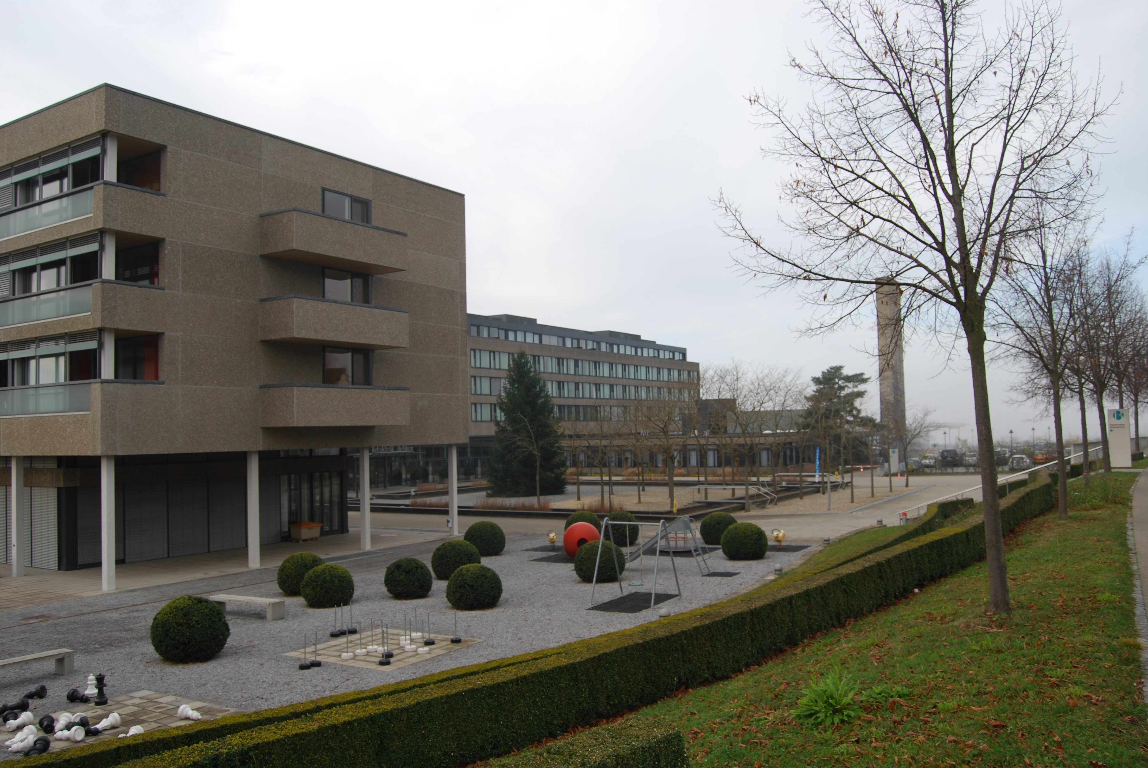 SUVA rehabilitation clinic at Bellikon, canton of Aargau, SwitzerlandEsperanto: Rehabiliga kliniko de SUVA en Bellikon, Kantono Argovio, Svislando